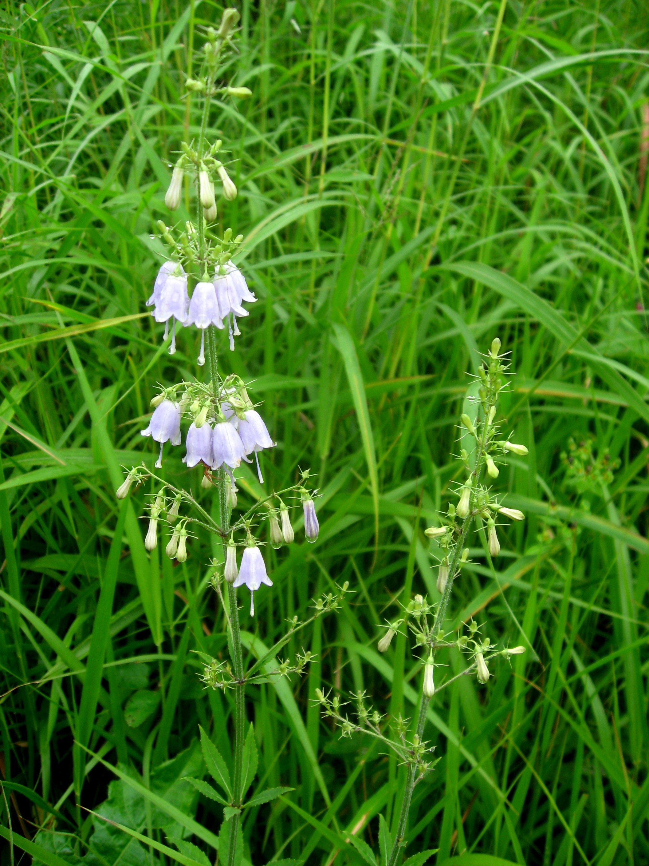 Adenophora triphylla var. japonicus, Aizu area, Fukushima pref., Japan